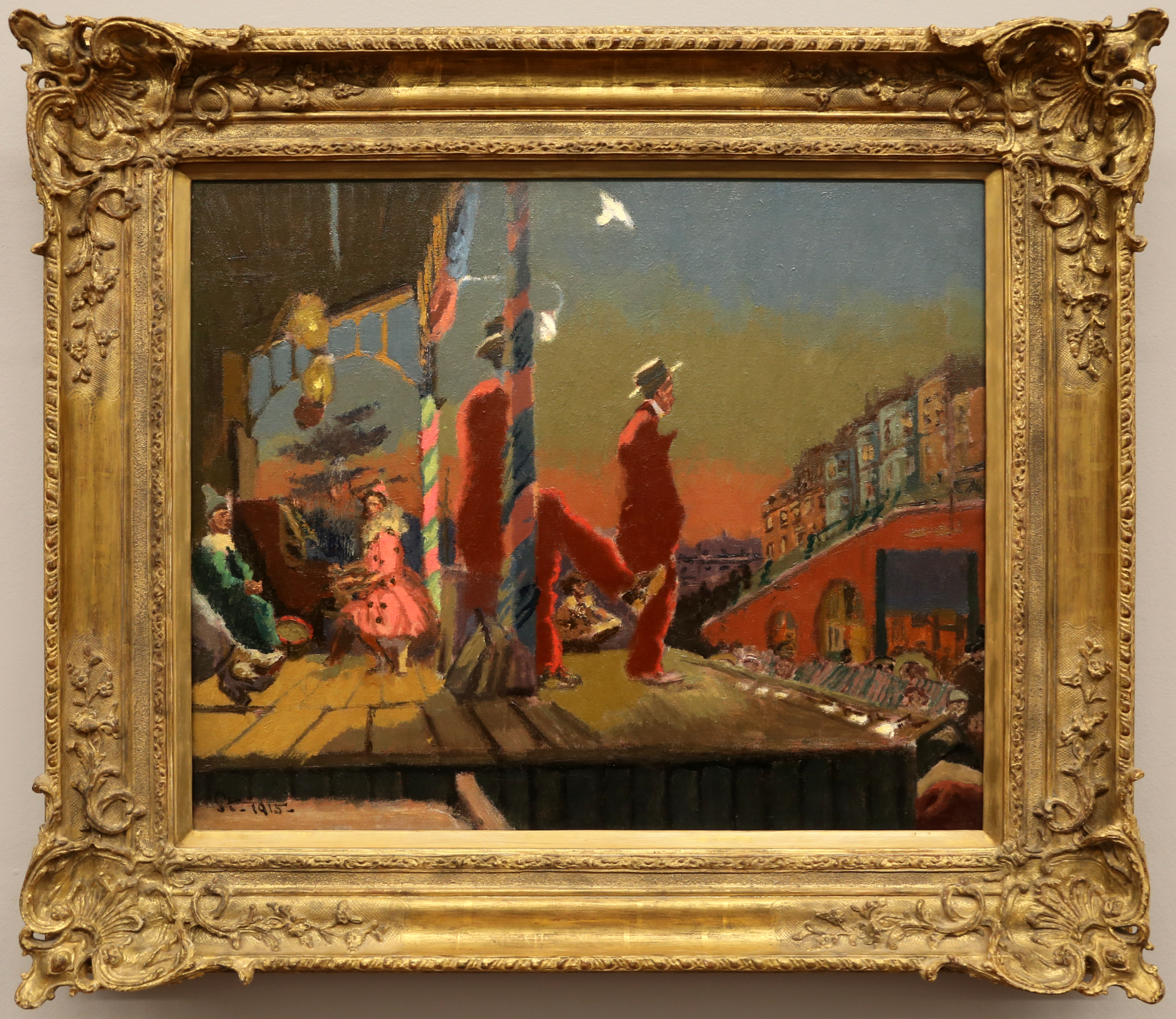 Paintings in Tate Britain